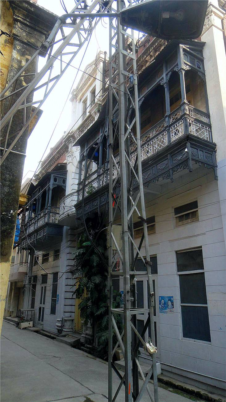 Between Civil lines road and Hospital road Furniture market, Gujranwala.